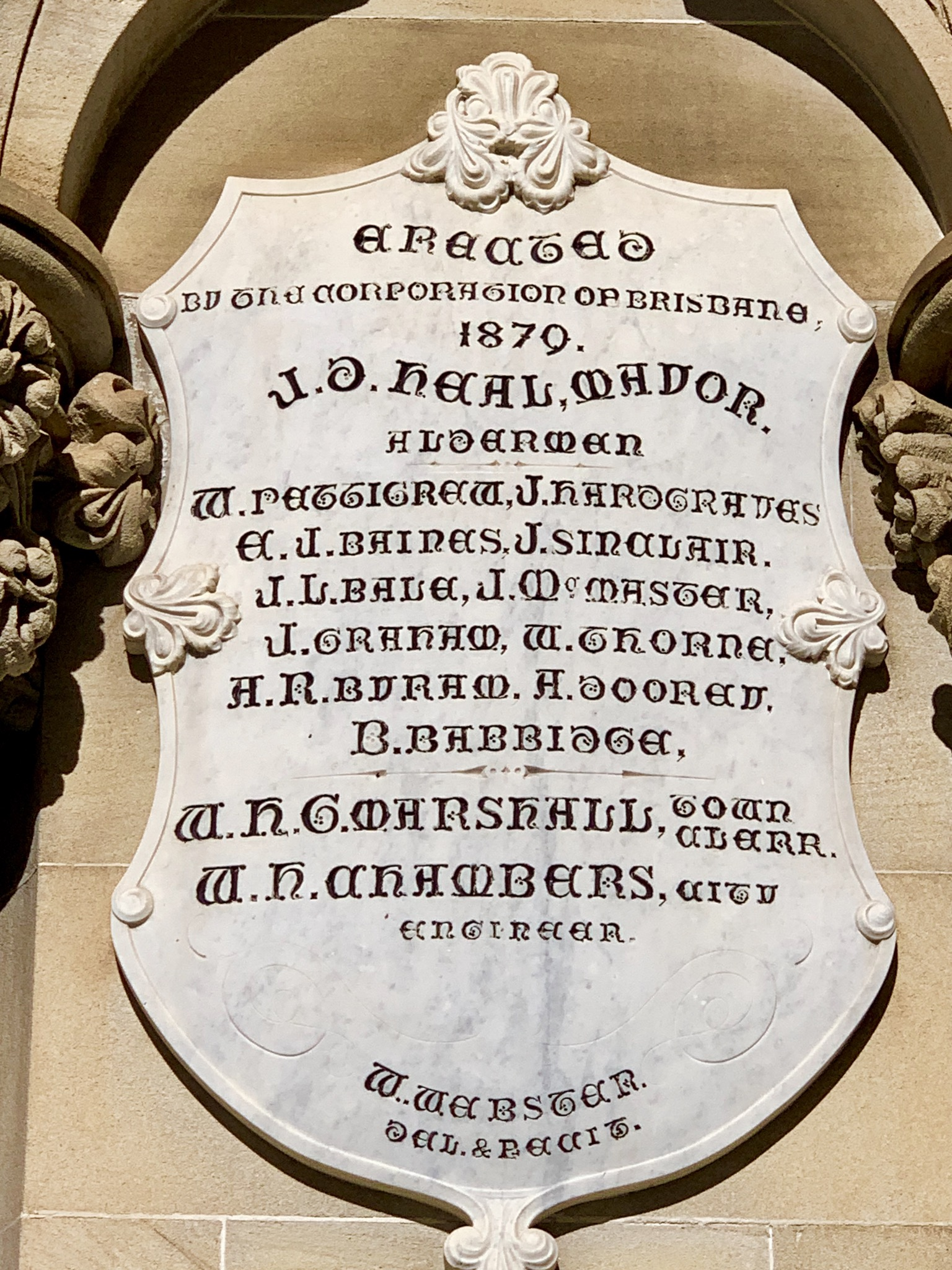 Front plaque Mooney Memorial Fountain, Brisbane in 2019